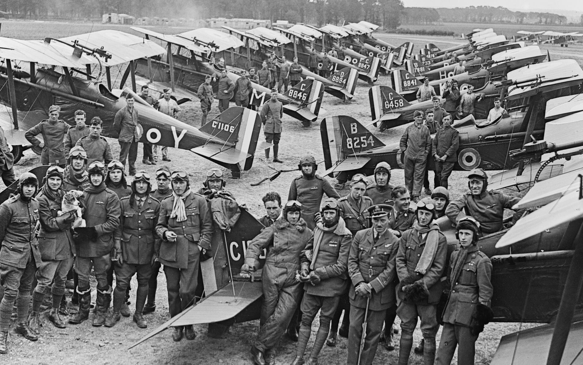 Officers of No 1 Squadron, RAF with SE5a biplanes at Clairmarais aerodrome, near Ypres, July 1918. Published in the Daily Mail, 8 August 1918.